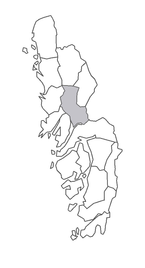 Map describing the location of Tunge Hundred in Bohuslän Province, Sweden.